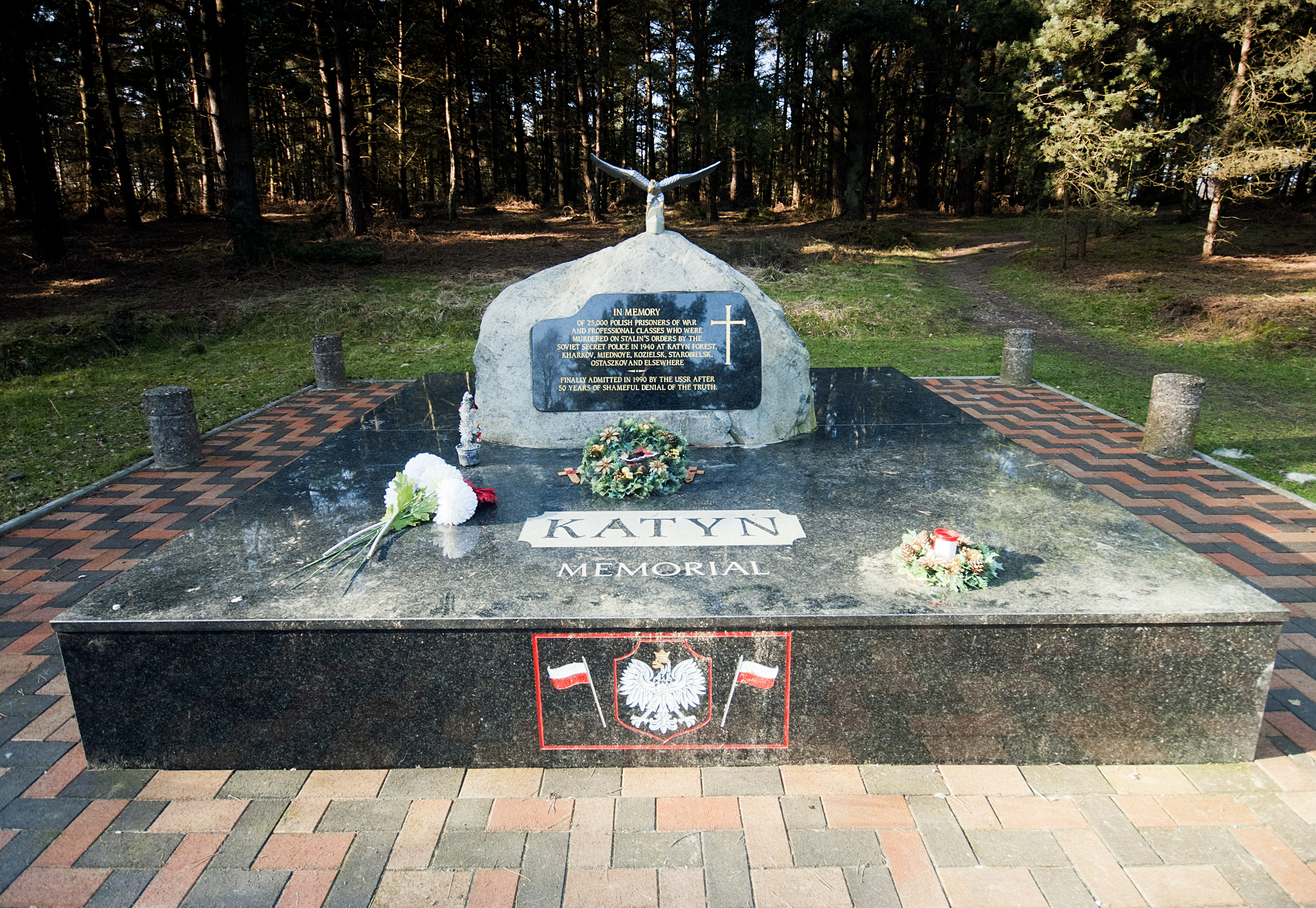 The Katyn Memorial on Cannock Chase, Staffordshire, UK. Inscription Reads: In memory of 25,000 Polish prisoners of war and professional classes who were murdered on Stalin's orders by the Soviet Secret Police in 1940 at Katyn Forest, Kharkov, Miednoye, Kozielsk, Starobielsk, Ostaszkov and elsewhere. Finally admitted in 1990 by the USSR after 50 years of shameful denial of the truth.